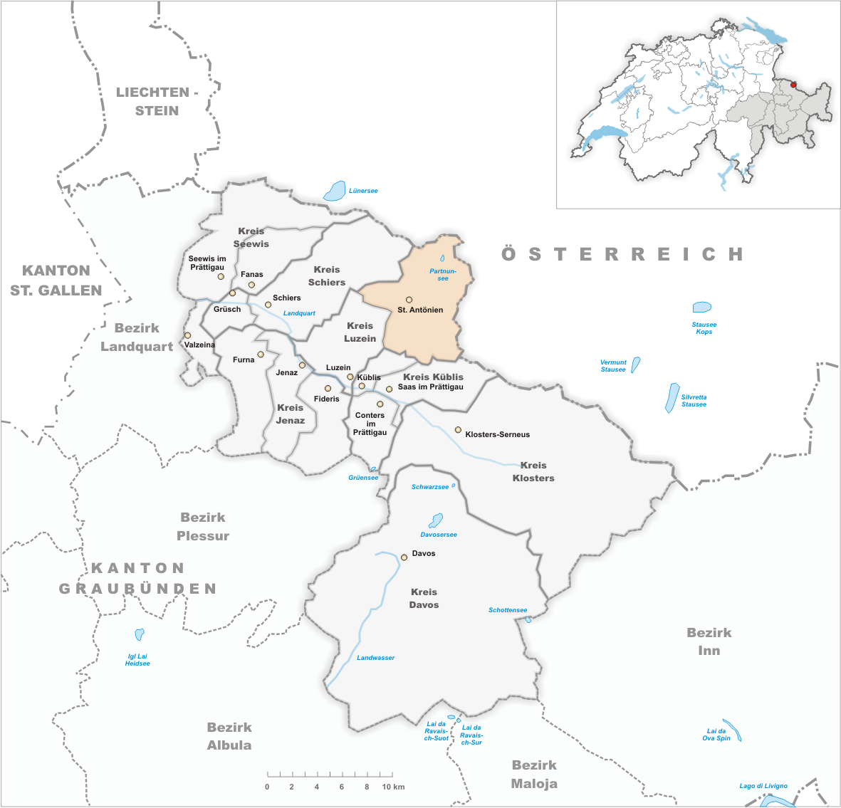 Municipality St. Antönien